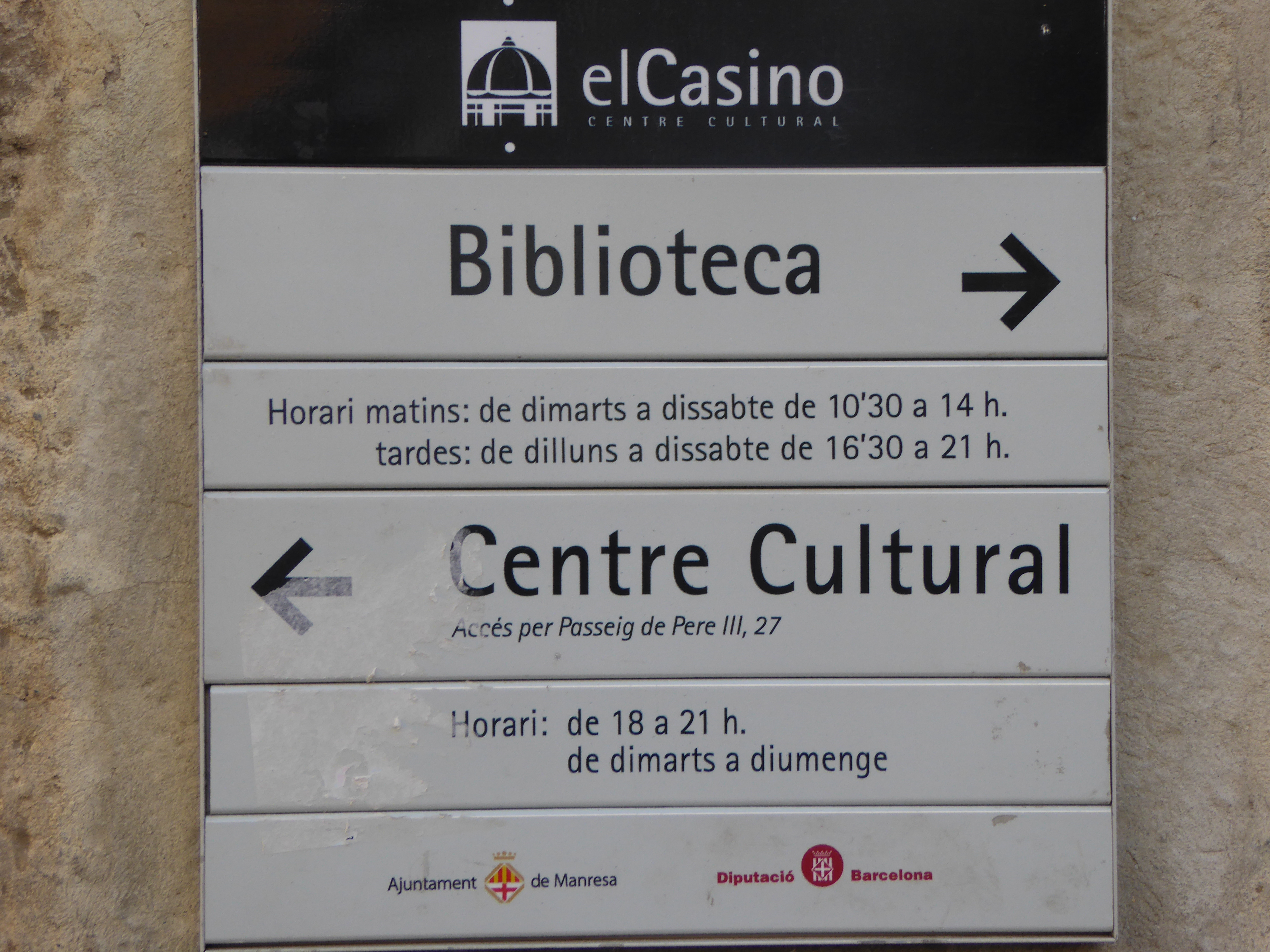 Sign on Casino de Manresa, Passeig Pere III, Manresa, province of Barcelona, Catalonia, December 2014